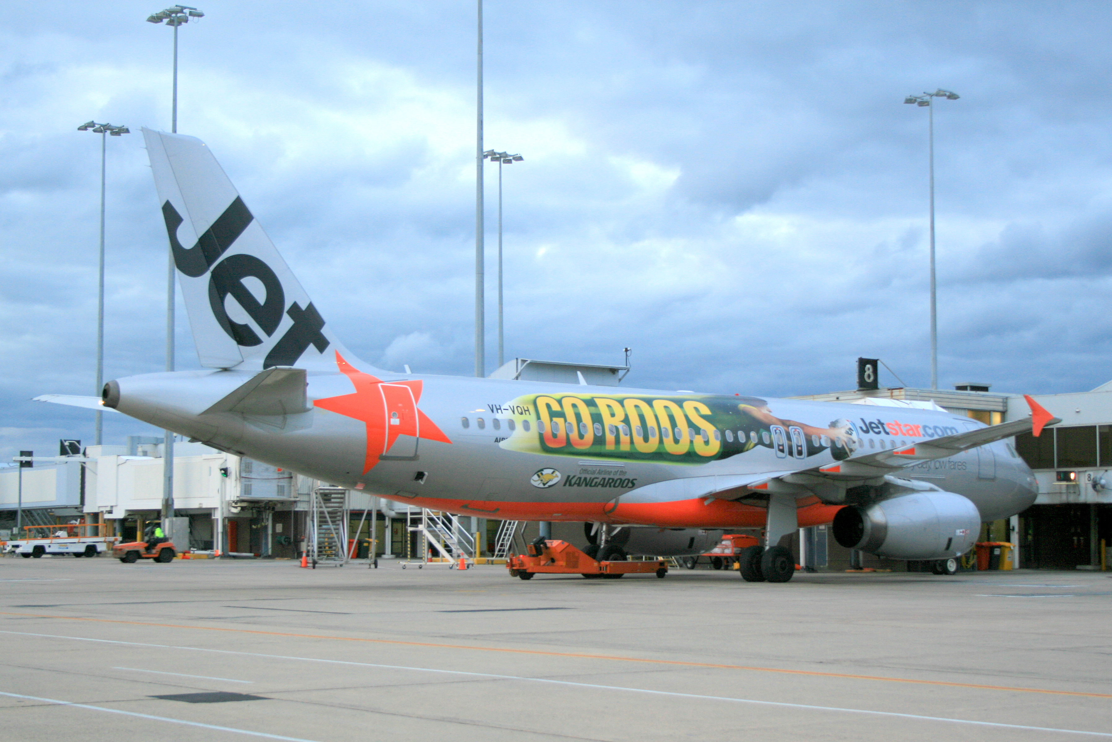 Airbus Industries A320-232 VH-VQH at Melbourne Airport. Jetstar Airways is a sponsor of the 2008 Rugby League World Cup. One of the airline's Airbus A320s has special logos and titles to promote the Australian Rugby League team (the Kangaroos).